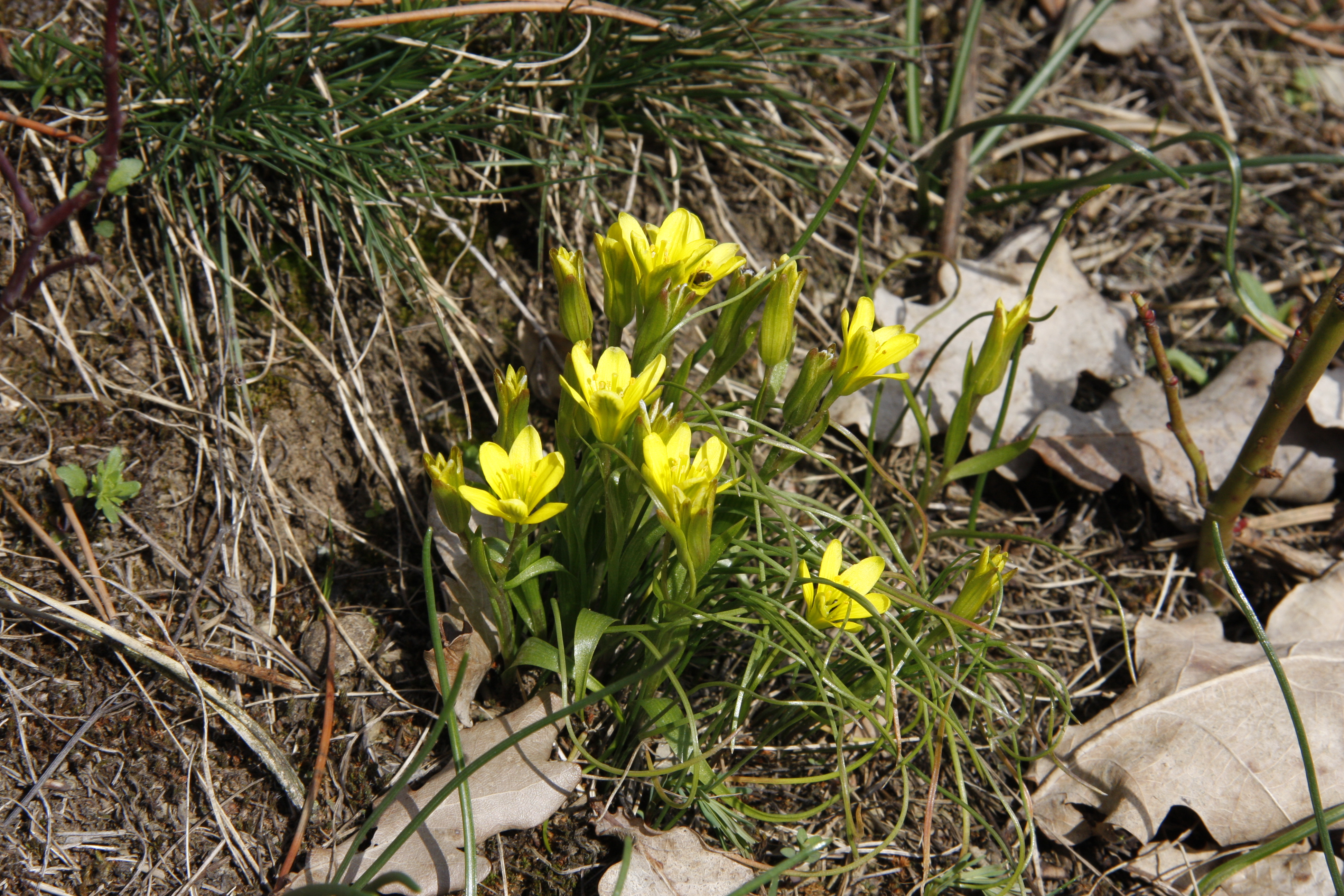 Gagea bohemica